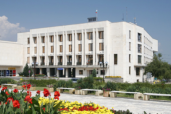 Gorna Oryahovitsa town centre